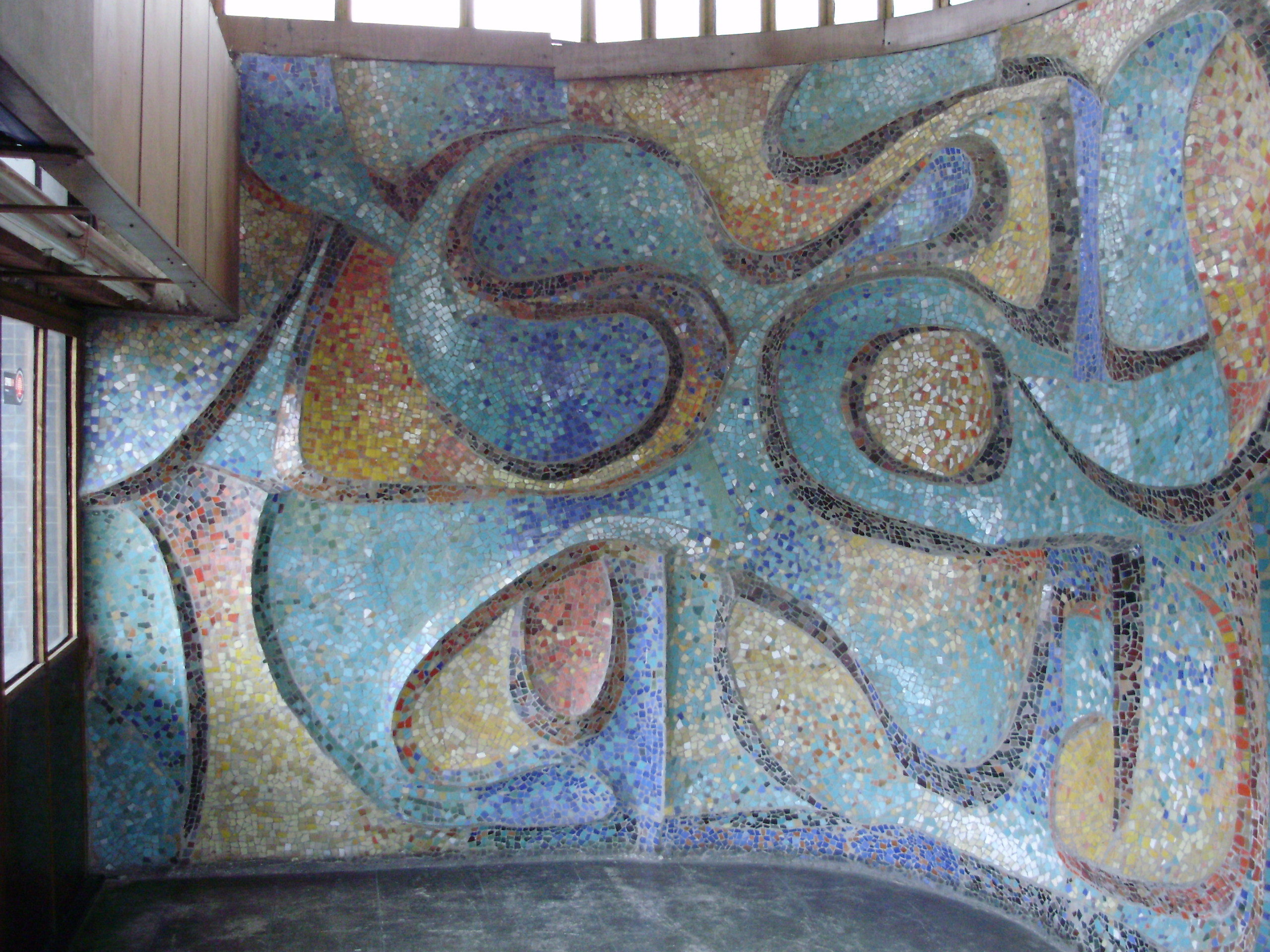 Mozaic by Wanda Goslawska located at 12 Postepu Street, Warsaw, Poland